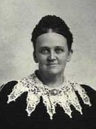 Carl Julius Aller (1845-1926), Danish publisher, and wife Laura Aller